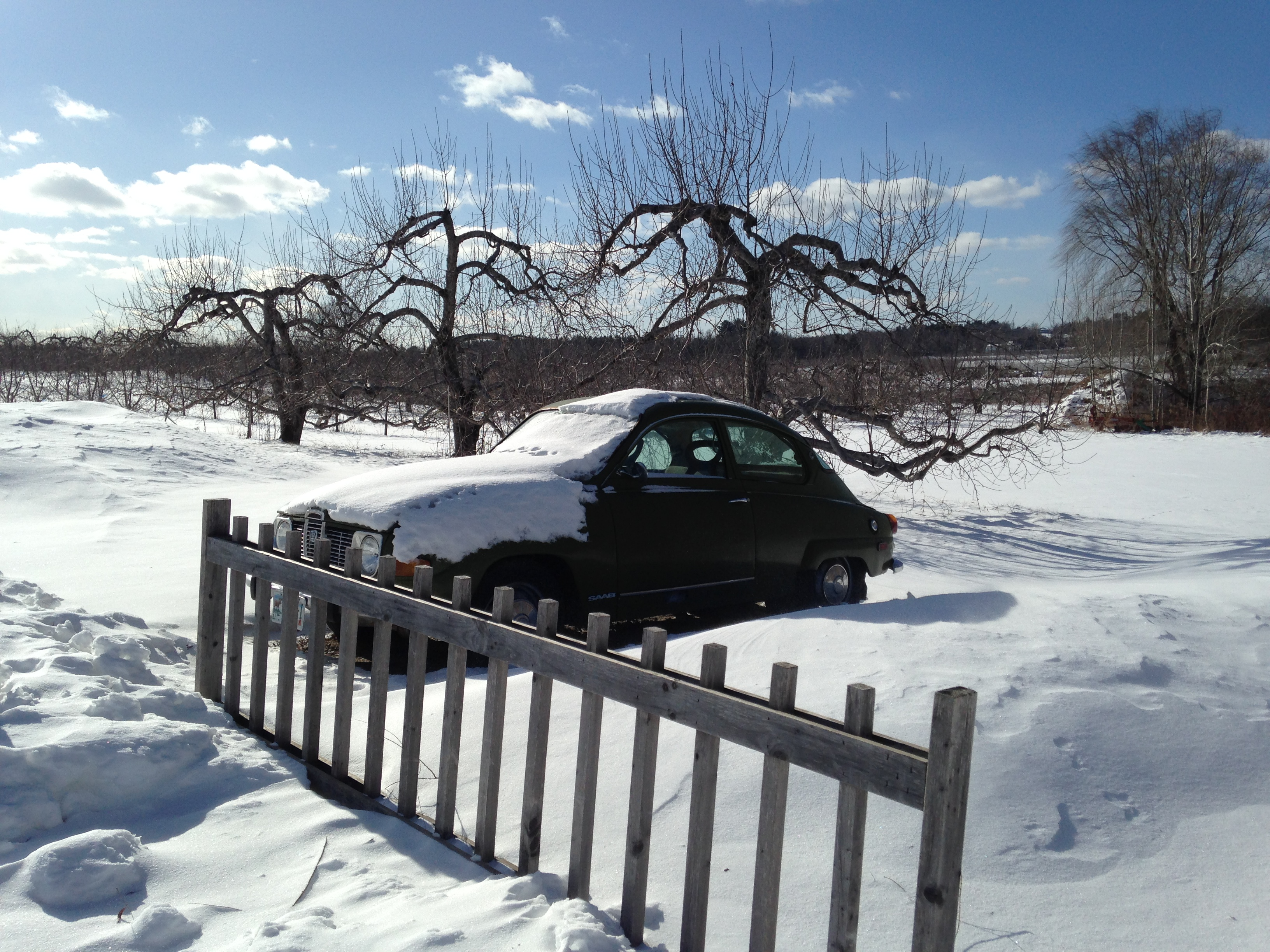 A winter view of an apple orchard in Hollis, New Hampshire